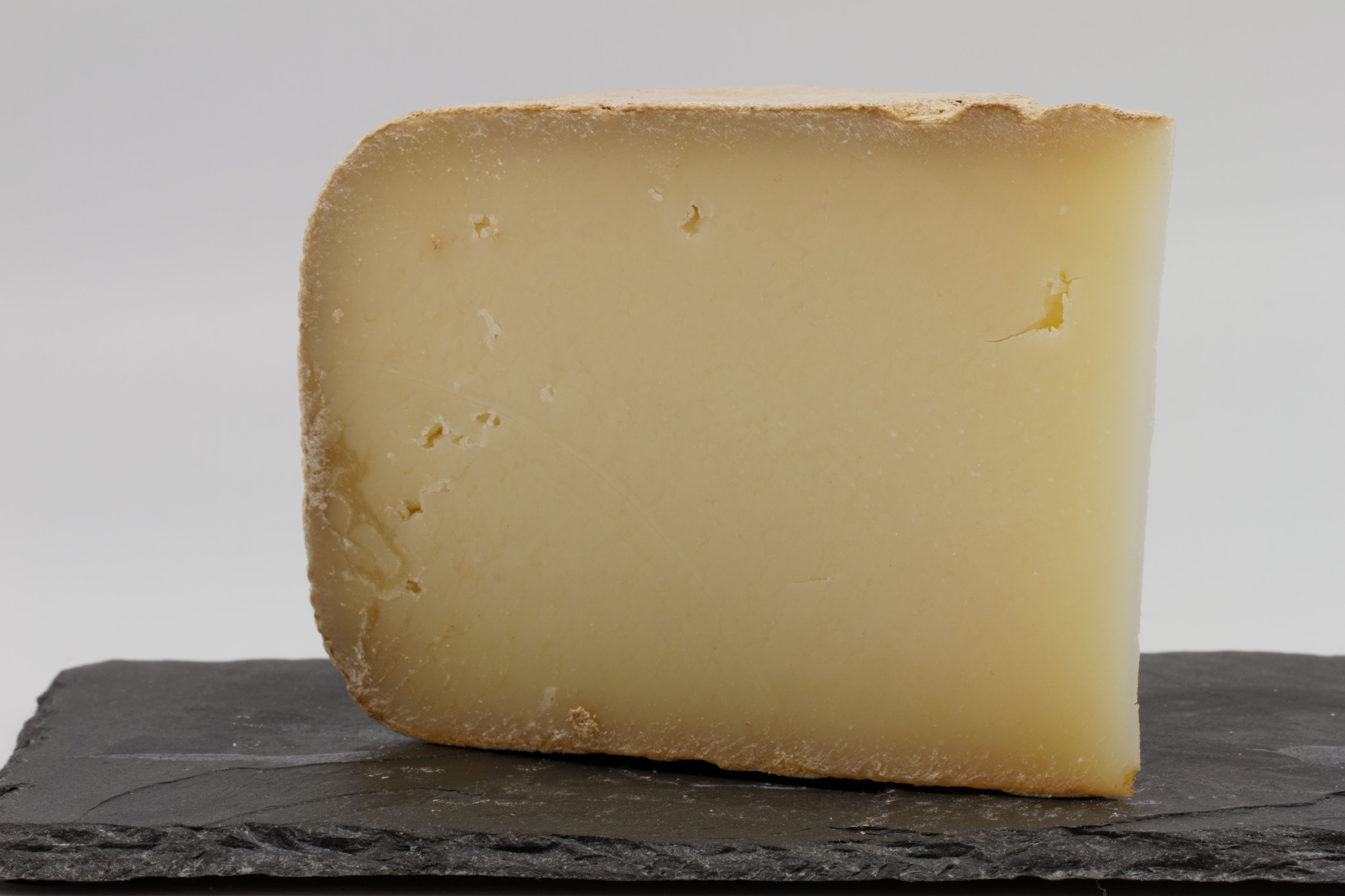 Ossau-iraty